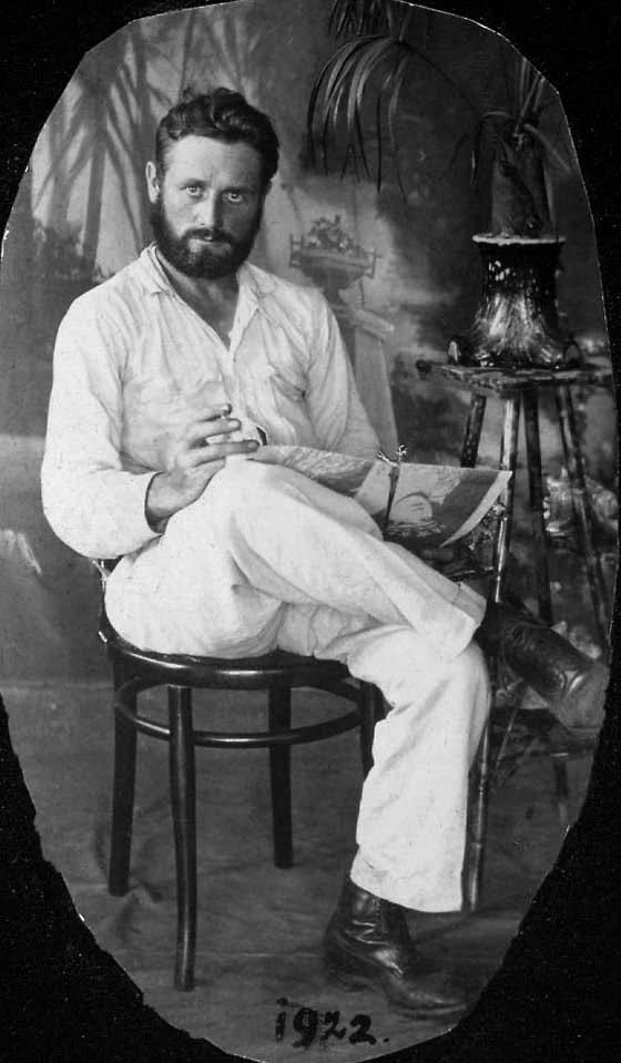 Frans Blom in a photo dated 1922.